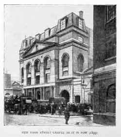 From: The Baptist encyclopaedia : a dictionary ... of the general history of the Baptist denomination in all lands; with numerous biographical sketches of distinguished American and foreign Baptists, and a supplement; Cathcart, William; 1881; Philadelphia : Everts